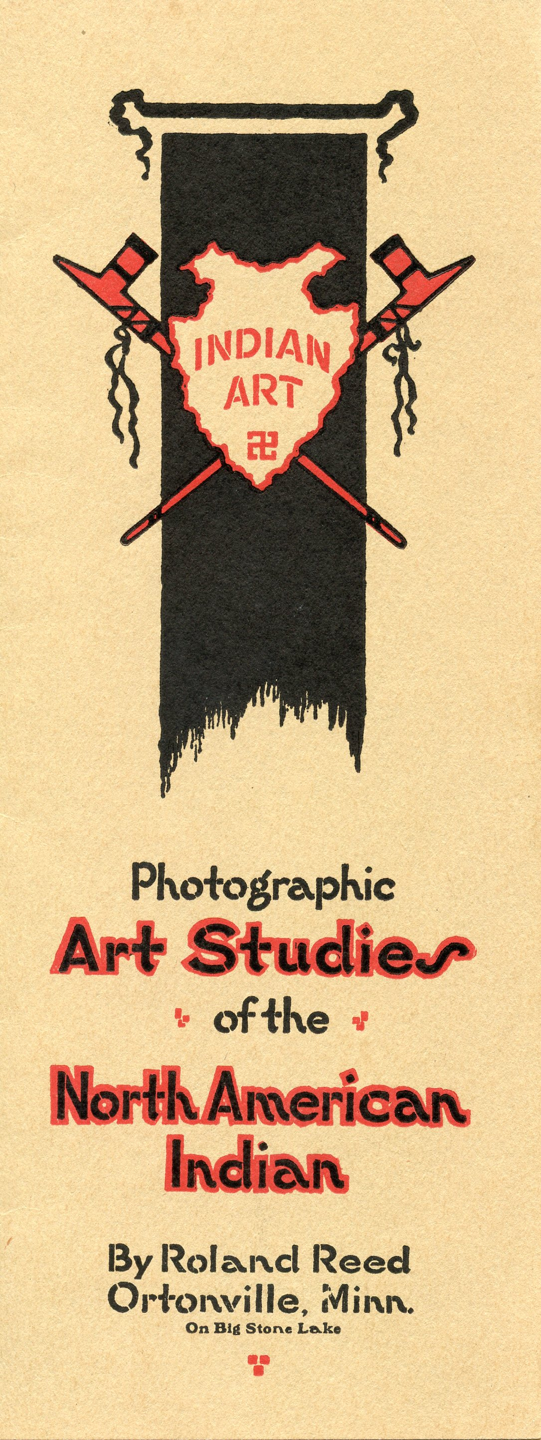 Catalog Cover